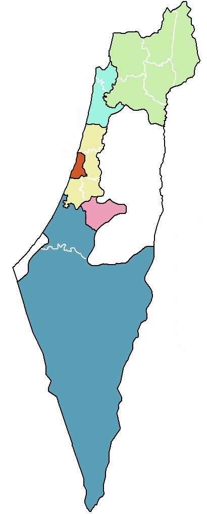 Map : Israel